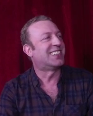 Indy Neidell of The Great War show on a podcast hosted by Etevät Gentlemannit Viihteellä on YouTube.